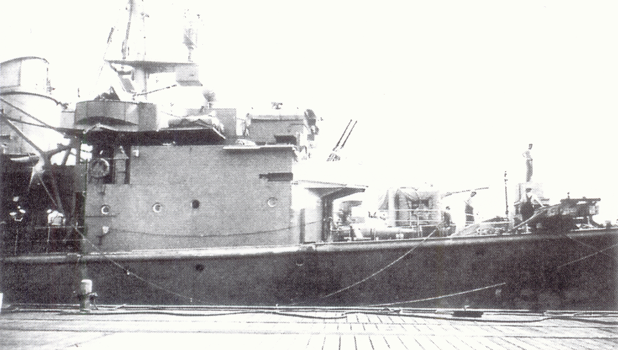 Former T 35 as DD 935, August 1945 in Boston, Massachusetts.